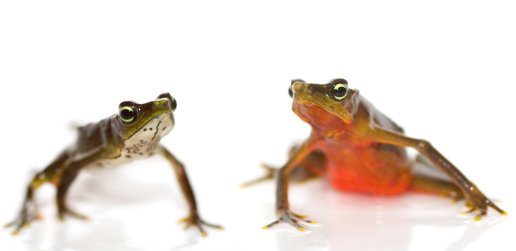 Brian Gratwicke